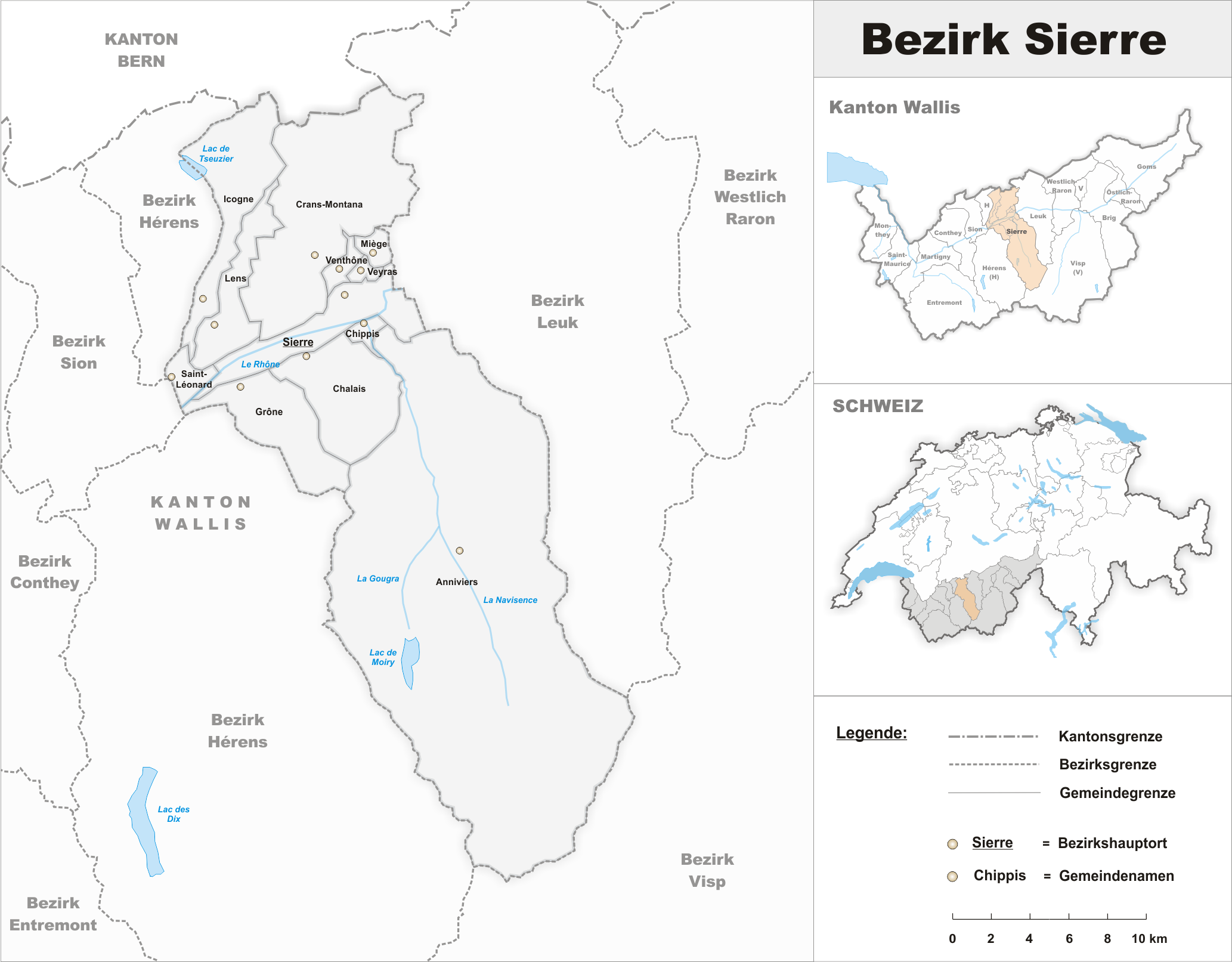 Municipalities in the district of Sierre